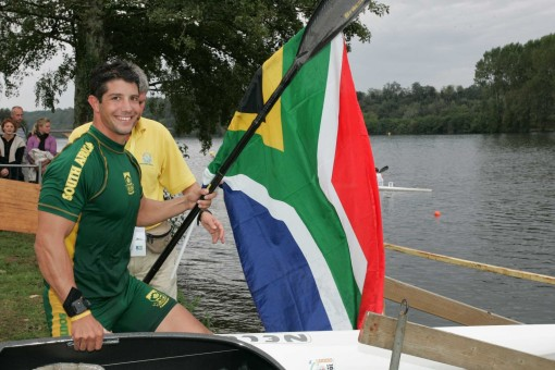 Shaun celebrating after the World Marathon Champs 2006 K1 event